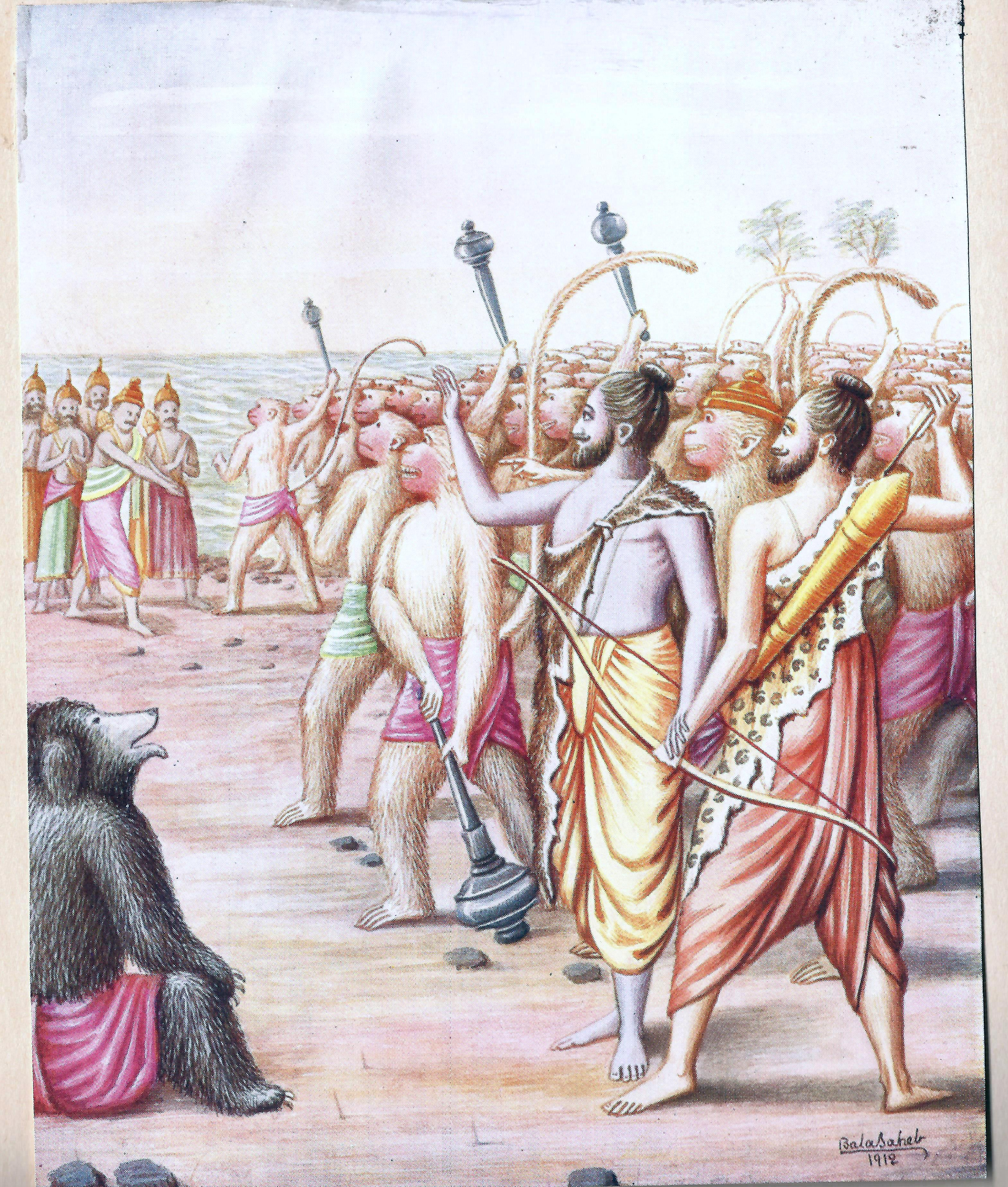 Utterly humiliated, Vibhishana, along with his four confidantes approached Rama eager to join him. Sugreeva did not believe him. But Rama intervened. He gave a patient listening to Vibhishana and promised Lanka's throne to him at the end of the war.